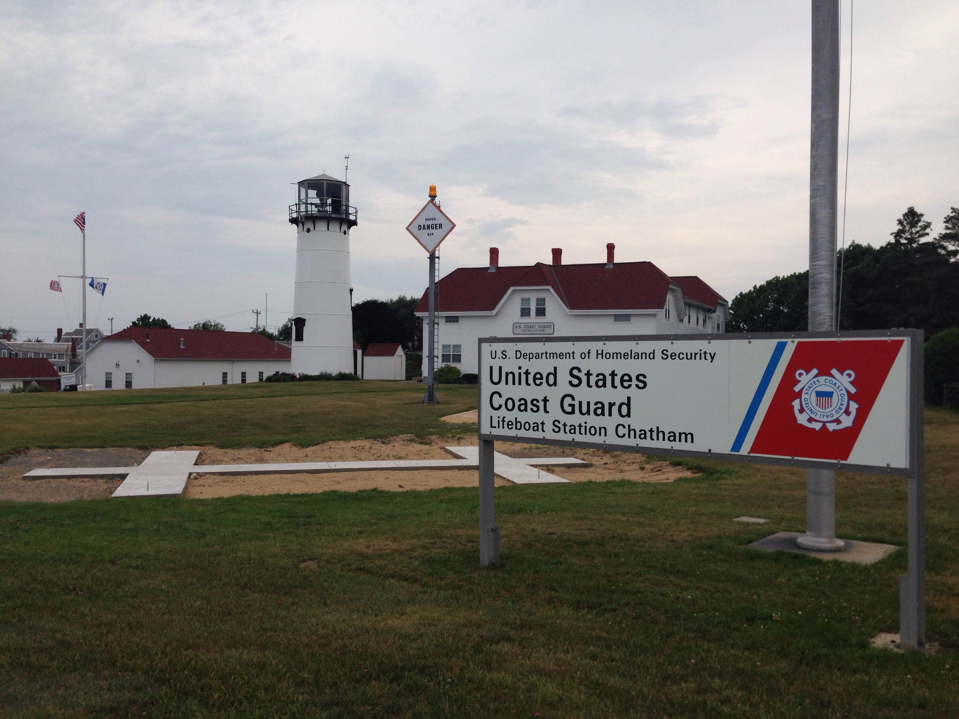 Chatham lighthouse daytime